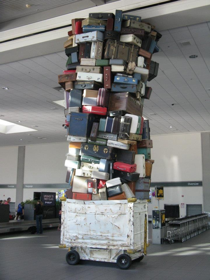 A luggage sculpture inside of Sacramento International Airport (SMF)